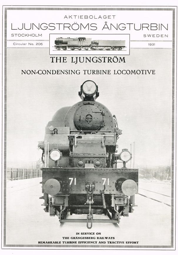 The Ljungström Non-condensing Turbine Locomotive: "In service on the Grängesberg Railways - remarkable turbine efficiency and tractive effort" (1931).